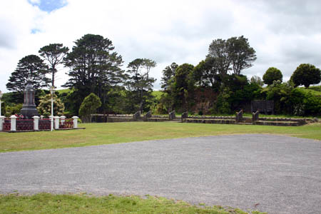 Parihaka Paa site Nov. 2005